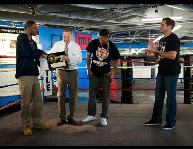 Tiger Smalls Receiving the key to the city of San Diego from Mayor Bob Filner